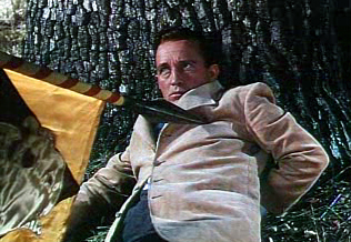 Cropped screenshot of Bing Crosby from the trailer for the film A Connecticut Yankee in King Arthur's Court (1949).